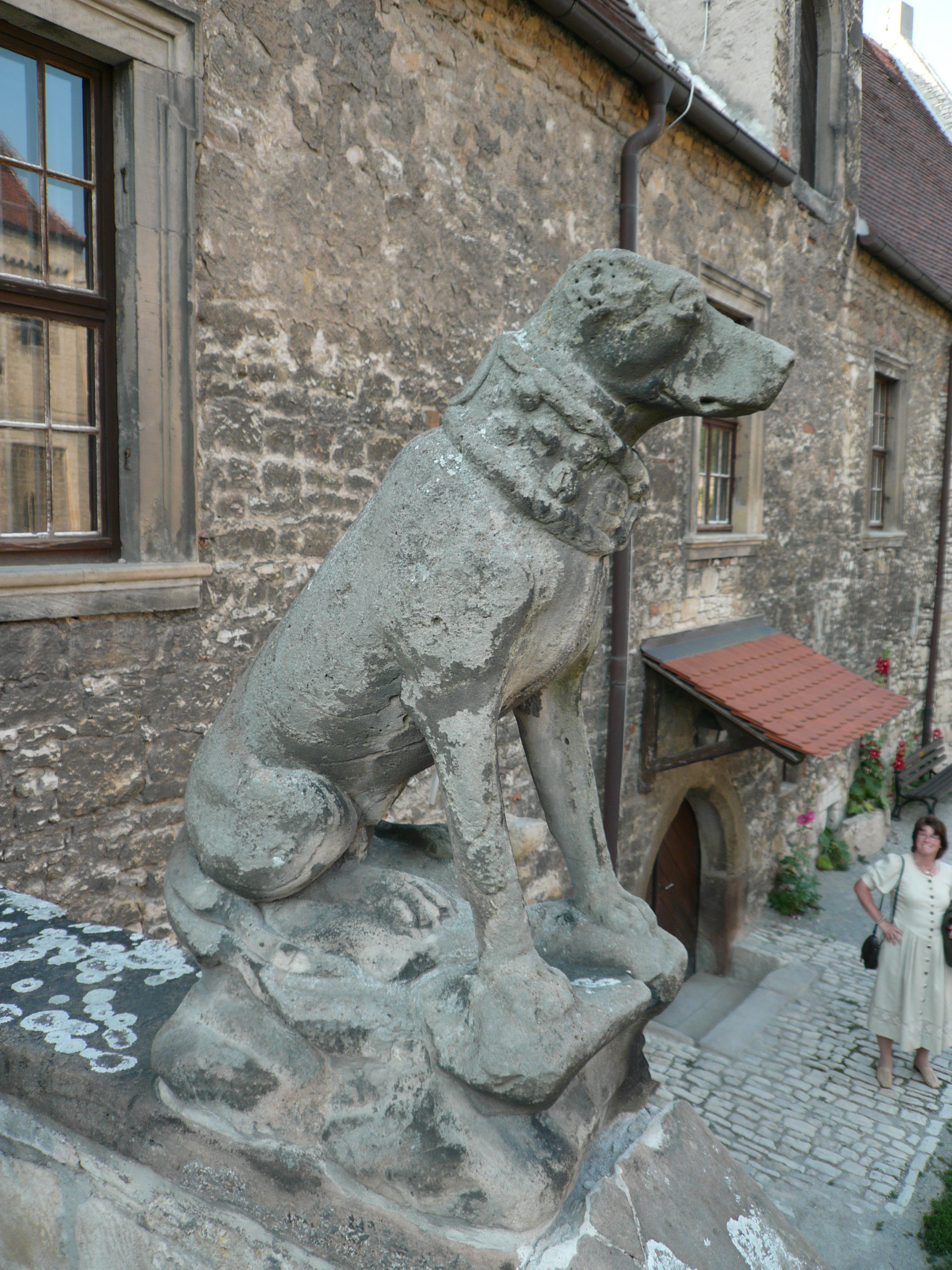 Sculpture a Weimaraner hunting dog at the castle on the river Unstrut Neuchâtel Freyburg, Saxony-Anhalt, Germany, 16 Century 51.208544 °, 11.775478 ° Schloss Neuenburg (Freyburg) Dowelled sculpture in sandstone, and ears were no longer available